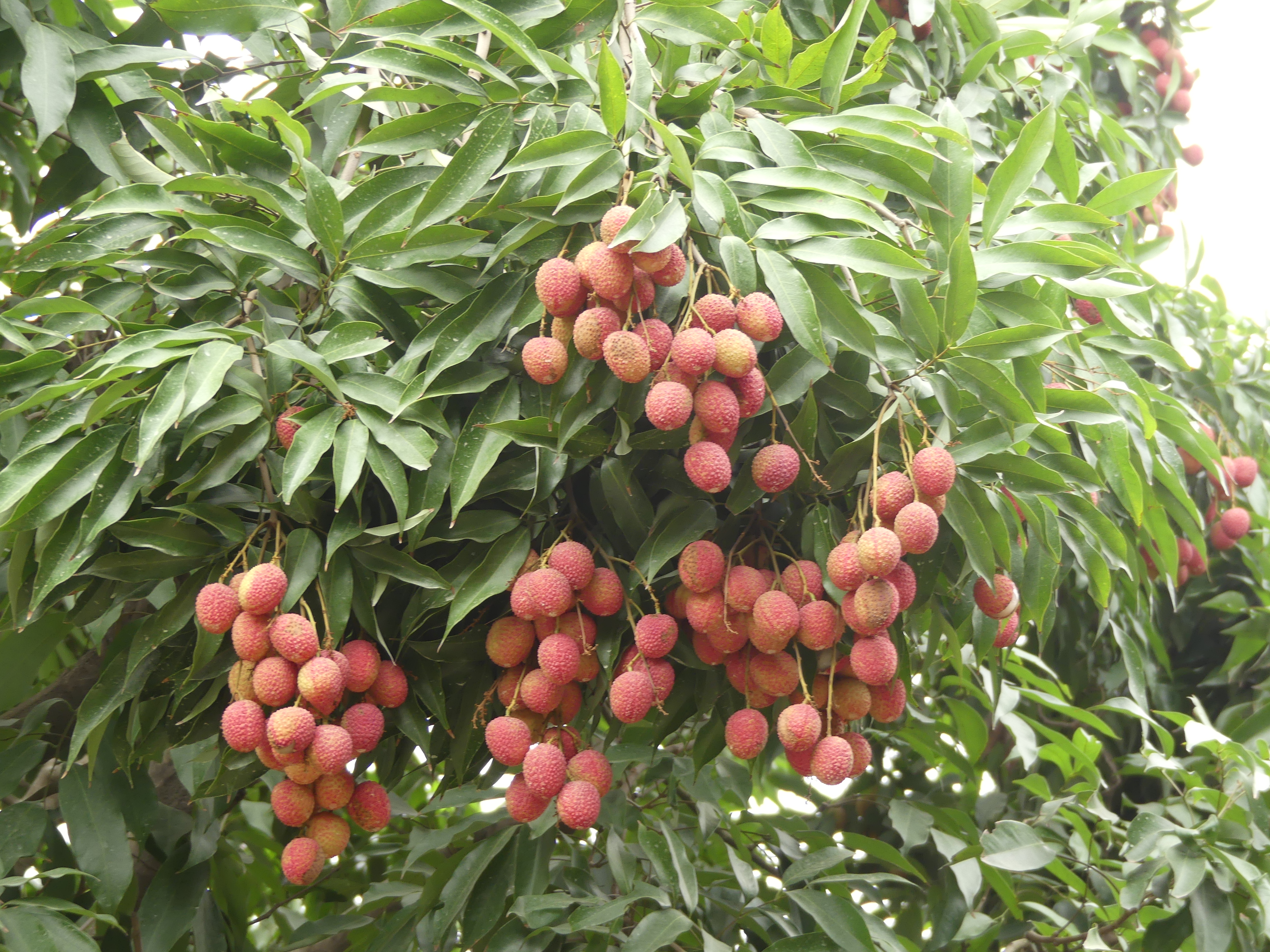 Litchi chinensis in Ramnagar